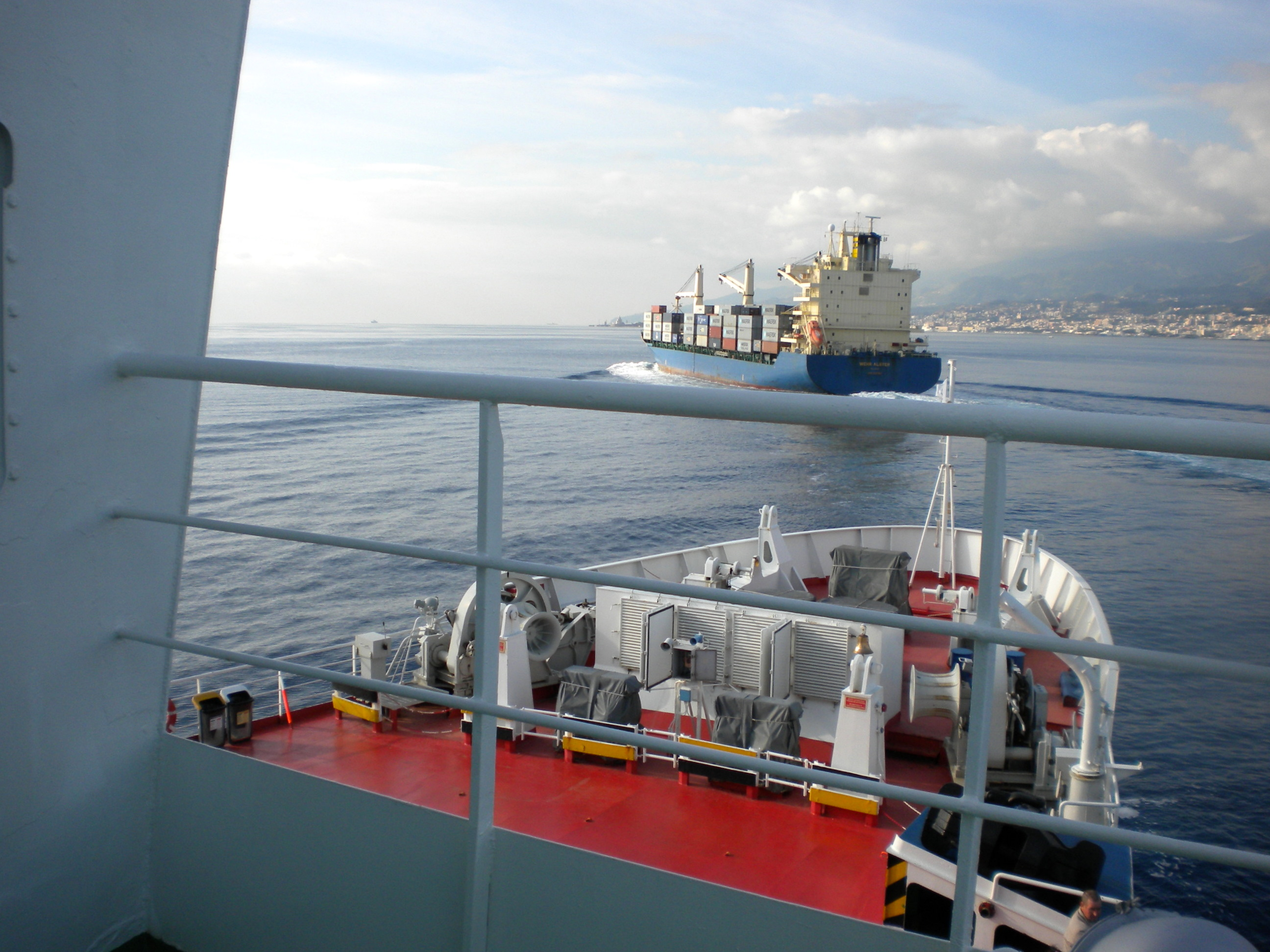 On the Strait of Messina